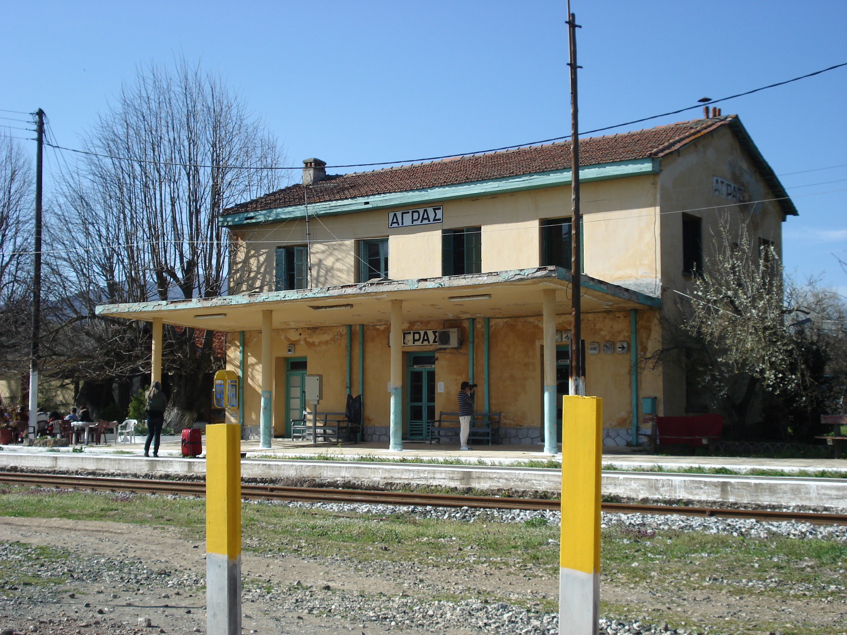 Railway station in Agras, Macdonia, Greece.